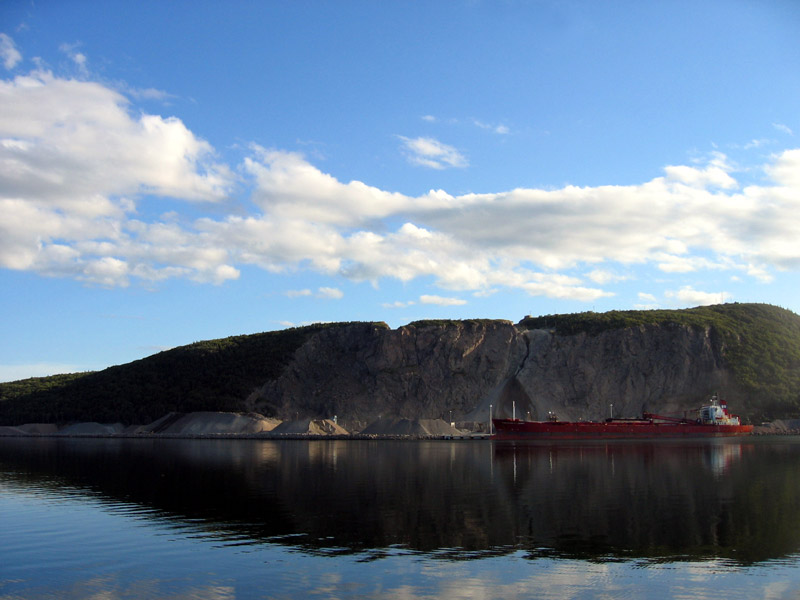 Porcupine Mountain (rock quarry), Aulds Cove, Guysborough County, Nova Scotia (near Canso Causeway to Cape Breton Island)